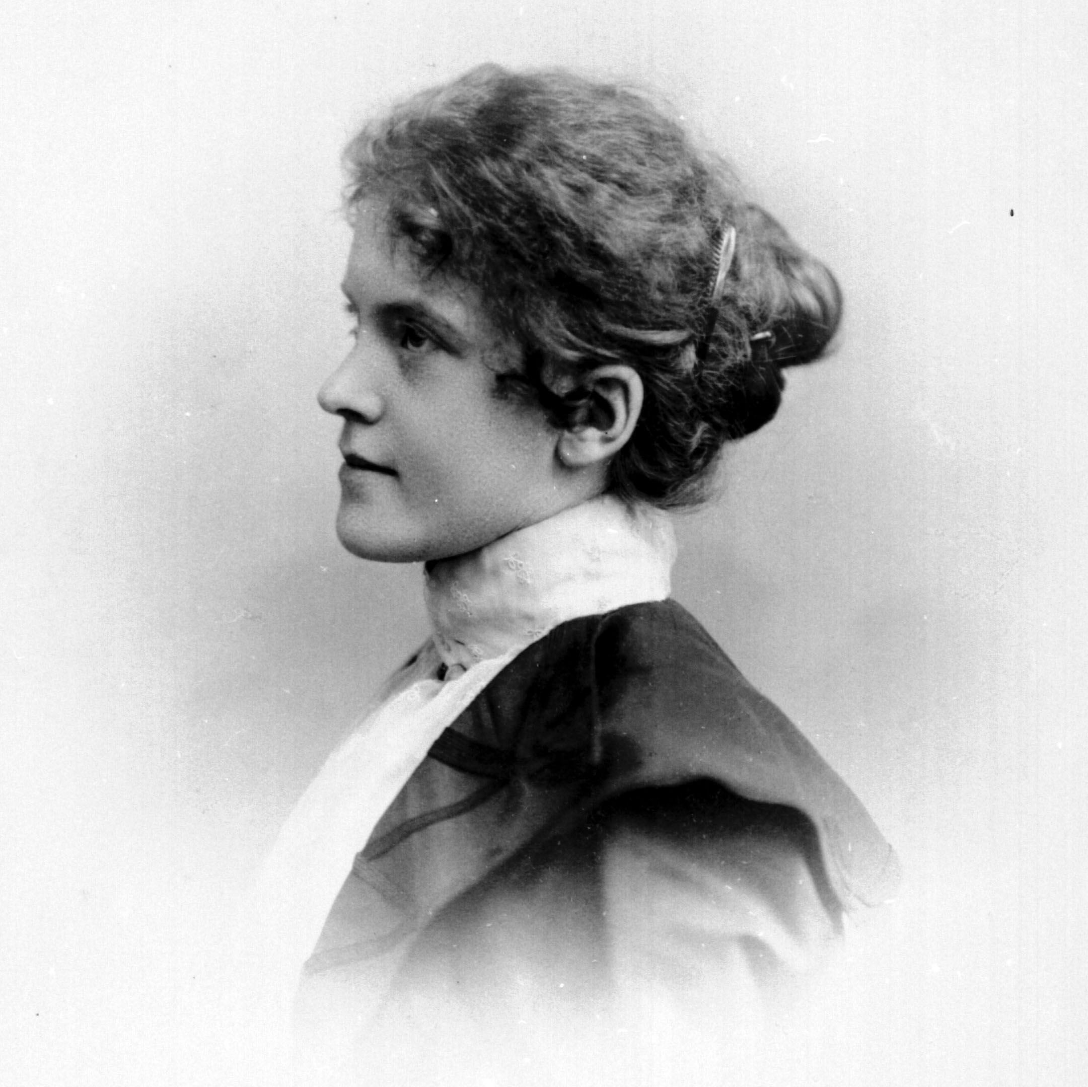 Artist: Elvira Date/place: 1899, München Subject: Dagny Bjønrson Langen Medium: photographic positive, B&W Notes: Daughter of Bjørnstjerne Bjørnson. Written on the photo "Dagny Bjørnson Langen; Aulestad 99. Persistent URL: [#//bergenbibliotek.no/digitale-samlinger//engelsk/-intro-eng” Original belongs to the Edvard Grieg Archives at Bergen Public Library] Original reference: EGM0077